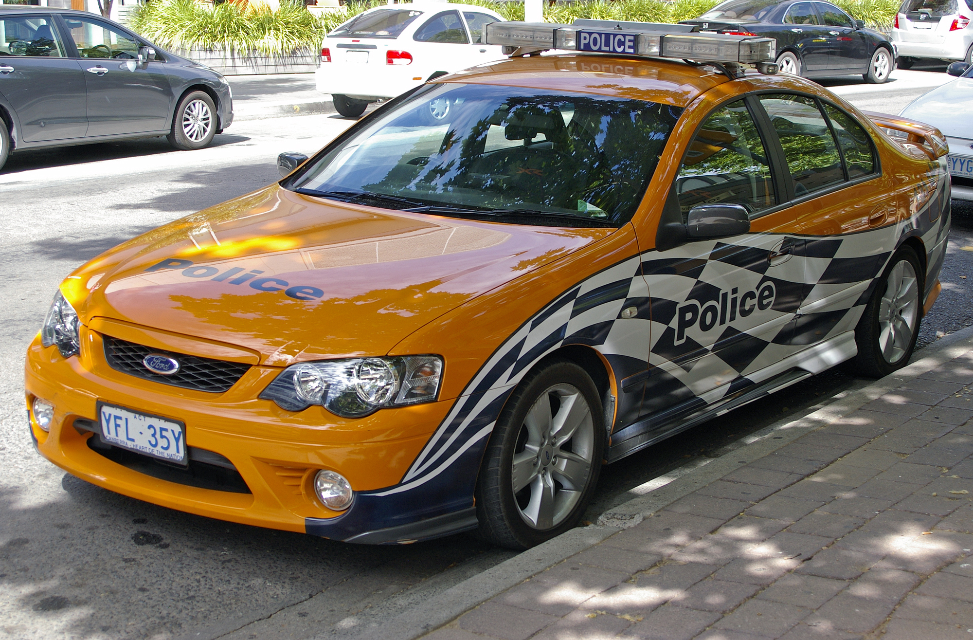 Australian Federal Police Ford BF Falcon XR6 Turbo, used for traffic duties.